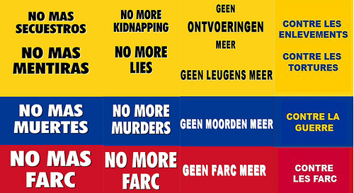 LOGO "COLOMBIA SOY YO" -- Emblem of Columbian anti-FARC demonstrations, Feb. 2008